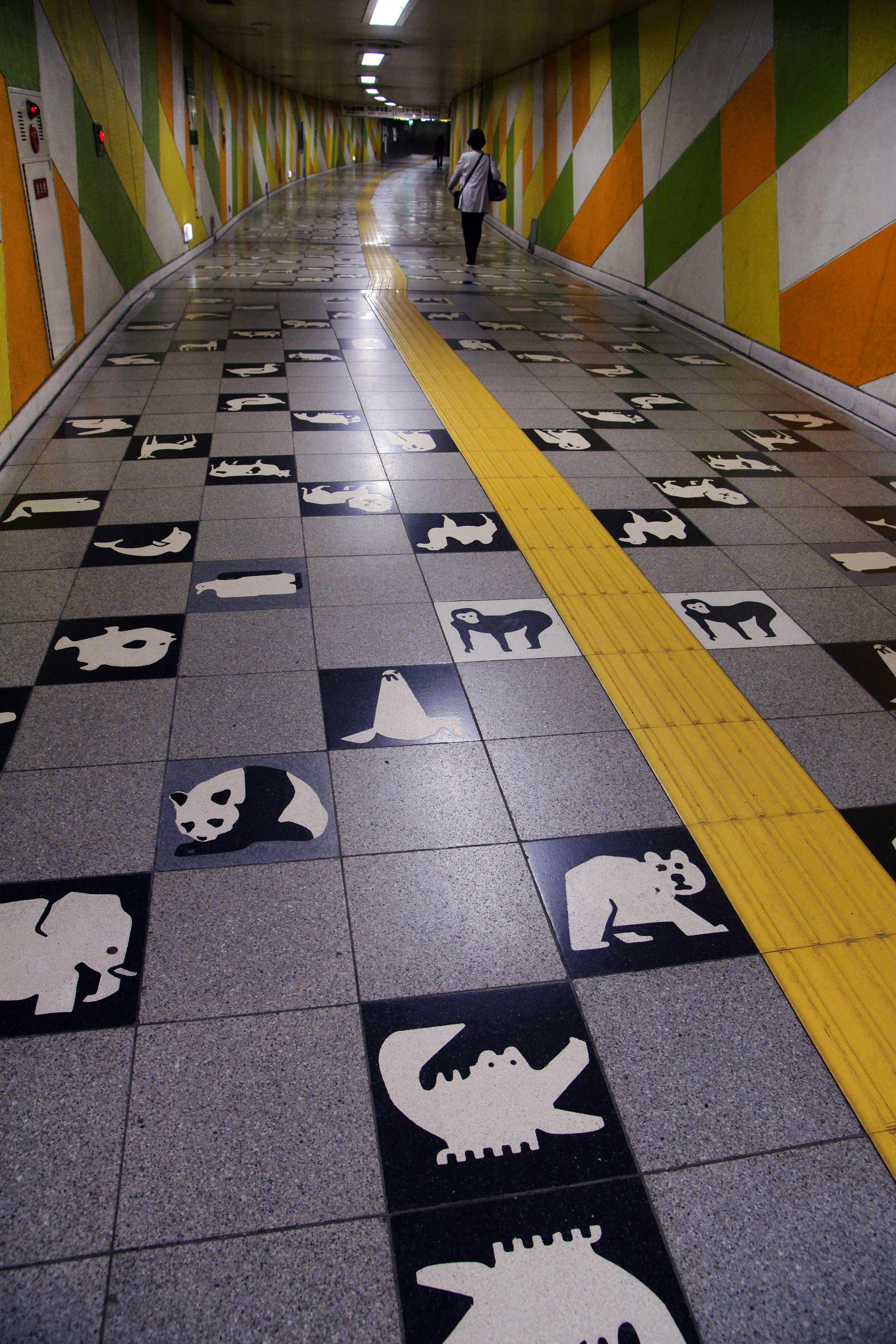 Maruyama koen Station in Sapporo, Hokkaido prefecture, Japan